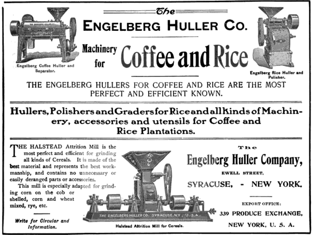 Engelberg Huller Company - Syracuse, New York - March, 1904